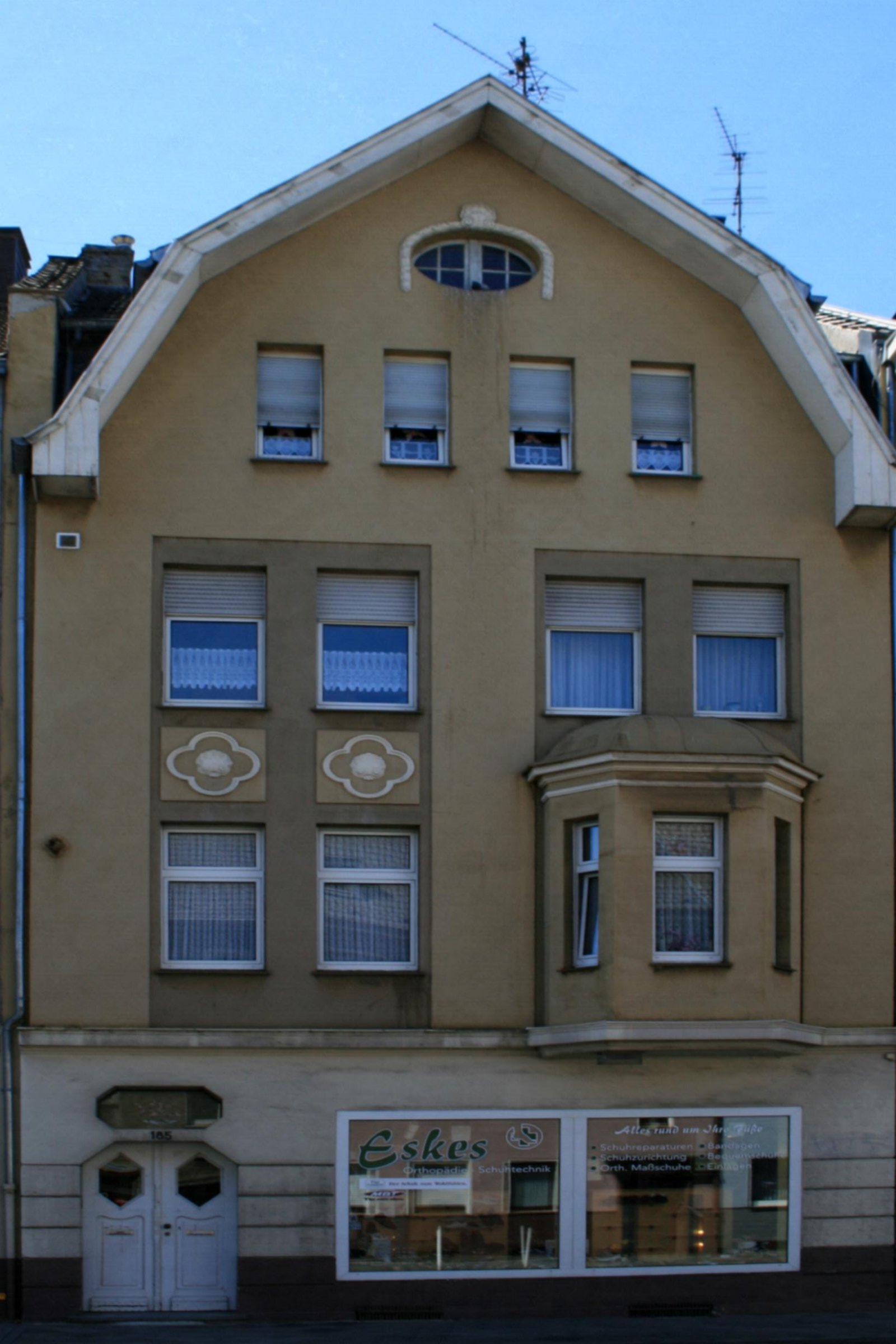 Cultural heritage monument No. E 014 in Mönchengladbach